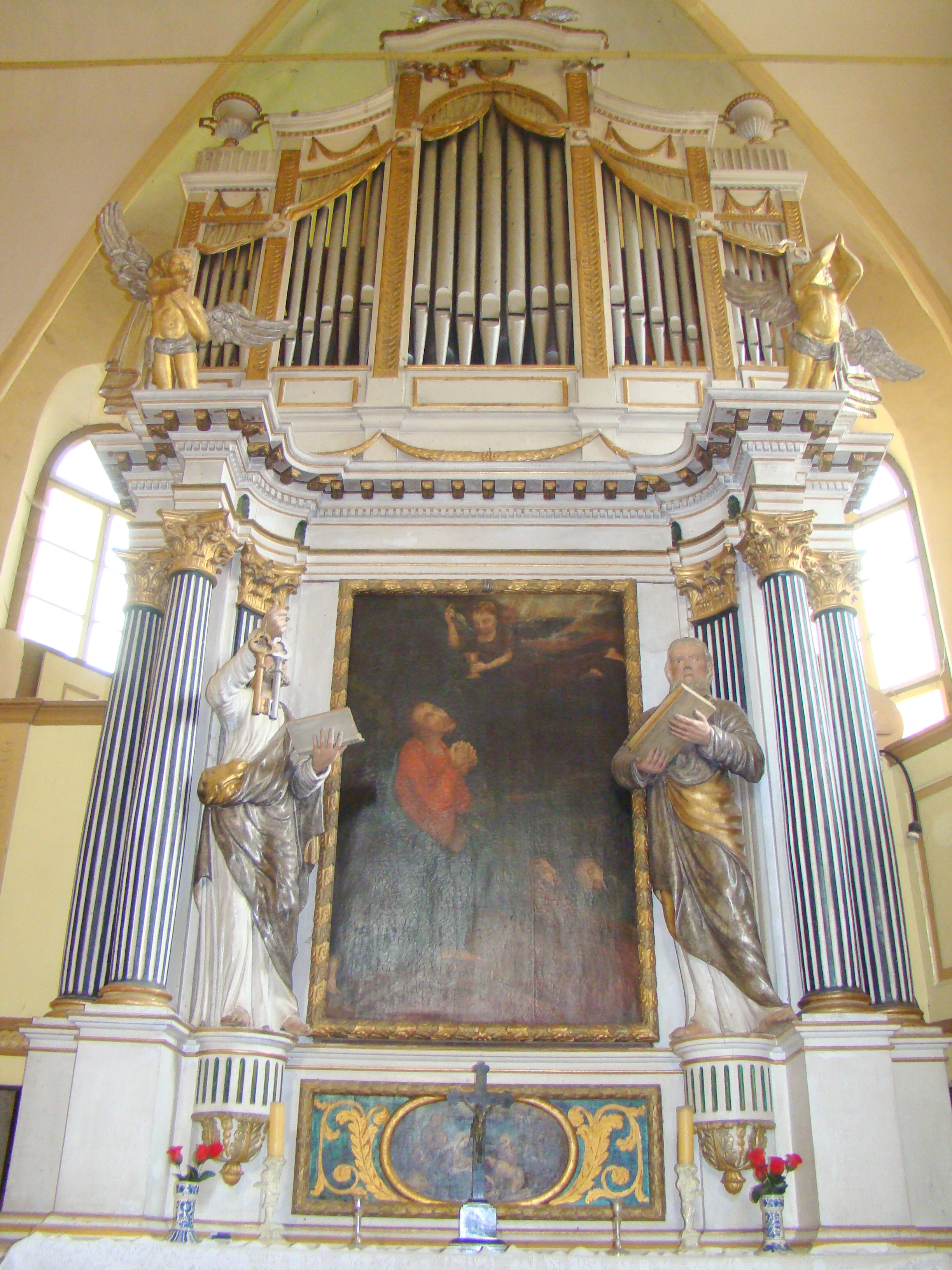 Fortified church in Cața, Braşov County, Romania